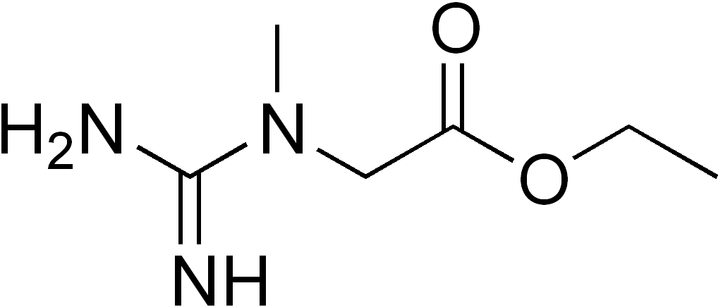 chemical structure of creatine ethyl ester